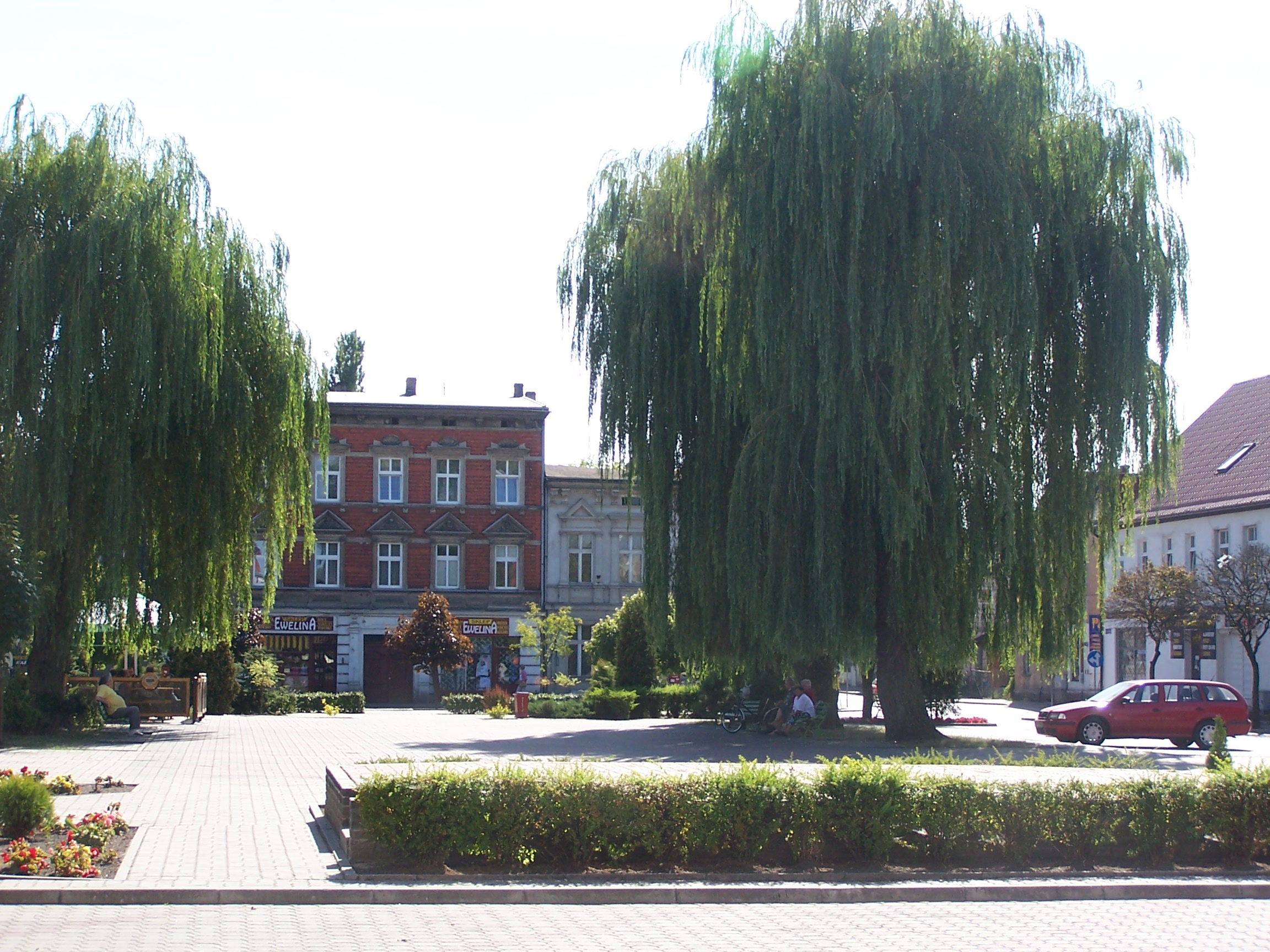 Market in Solec Kujawski